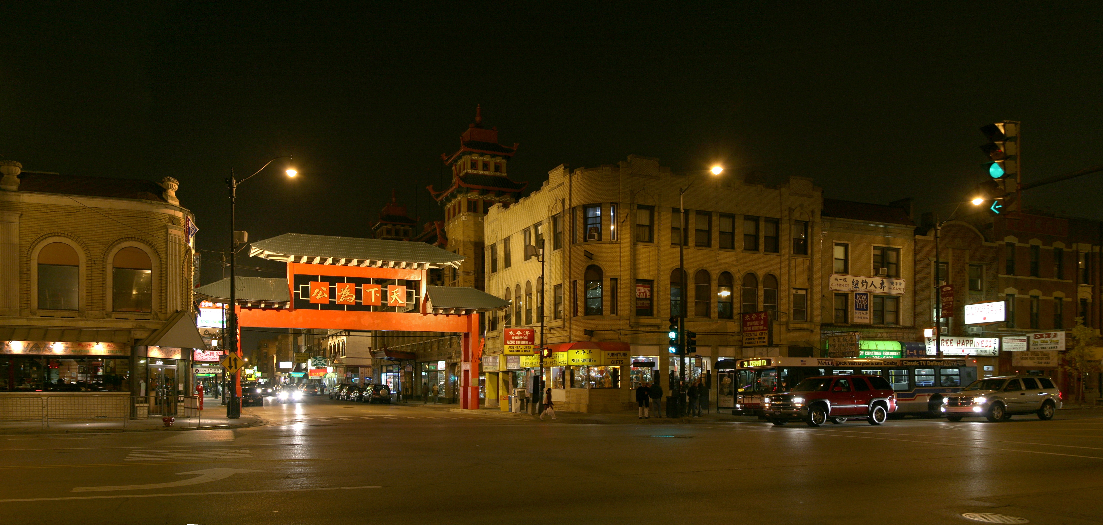 Chinatown Gate in Chicago, USA This image was created with Hugin.